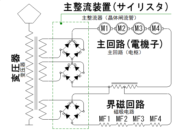 Translated from Japanese to Chinese-Simplified at 13:21(UTC+9) Feb 11th, 2019.